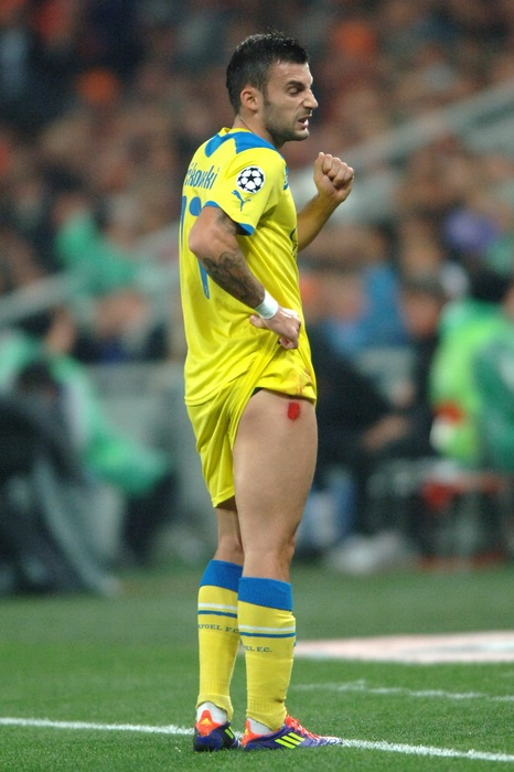 Ivan Tričkovski players of APOEL